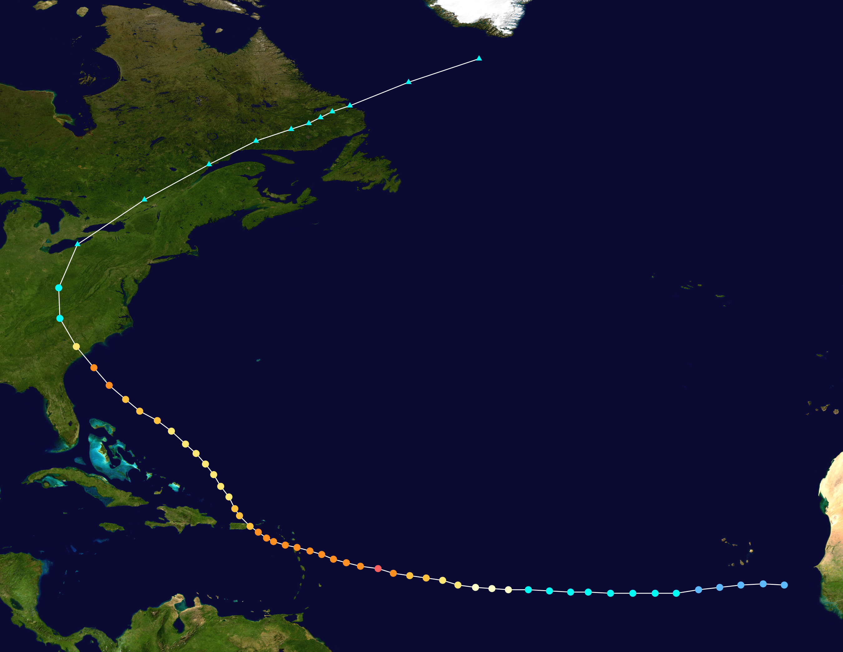 Hurricane Hugo (1989) track. Uses the color scheme from the Saffir-Simpson Hurricane Scale.